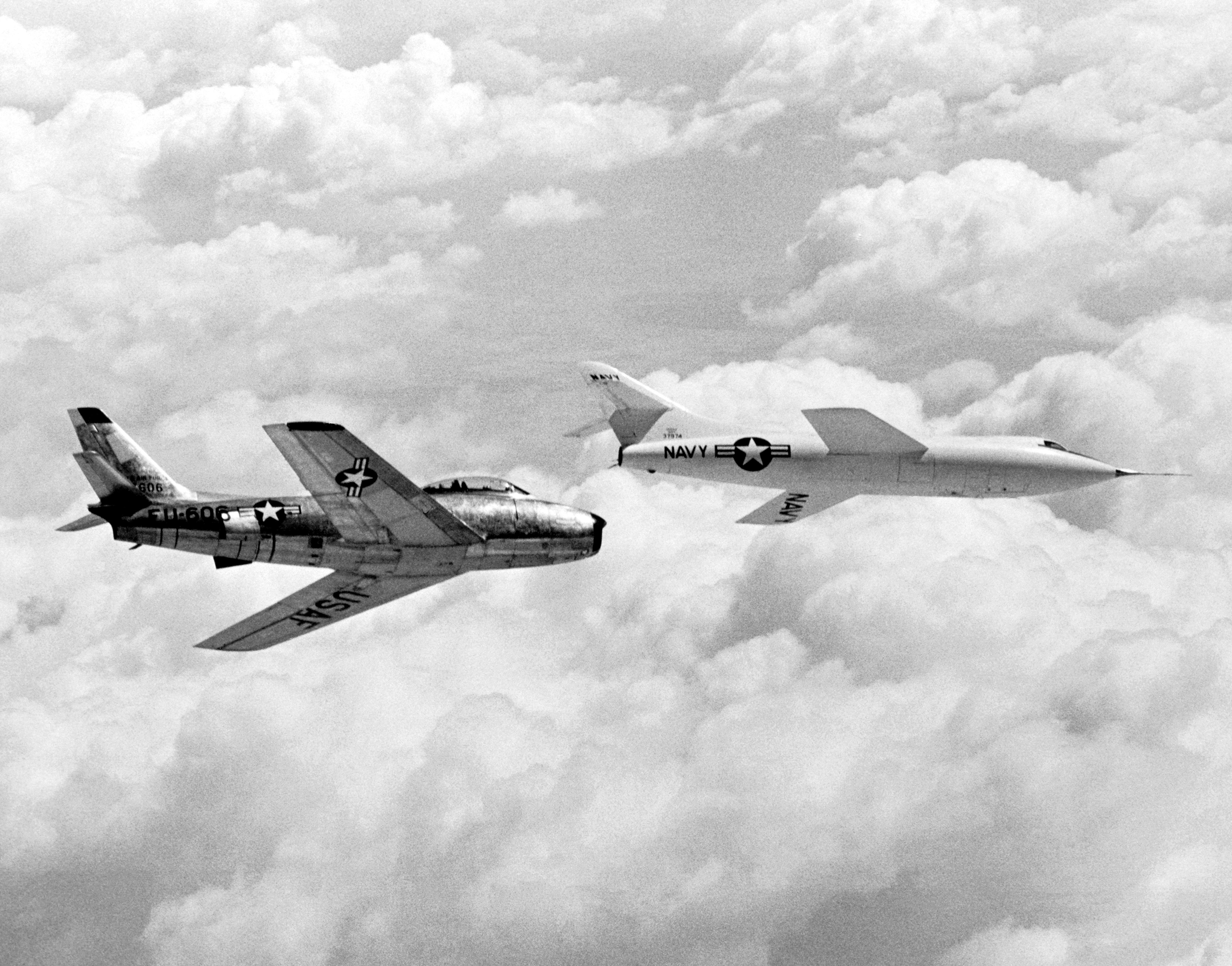 This 1950s photograph shows the Douglas D-558-2 and the North American F-86 Sabre chase aircraft in-flight. Both aircraft display early examples of swept wing airfoils. The Douglas D-558-2 "Skyrockets" were among the early transonic research airplanes like the X-1, X-4, X-5, and X-92A. Three of the single-seat, swept-wing aircraft flew from 1948 to 1956 in a joint program involving the National Advisory Committee for Aeronautics (NACA), with its flight research done at the NACA's Muroc Flight Test Unit in Calif., redesignated in 1949 the High-Speed Flight Research Station (HSFRS); the Navy-Marine Corps; and the Douglas Aircraft Co. The HSFRS became the High-Speed Flight Station in 1954 and is now known as the NASA Dryden Flight Research Center. The Skyrocket made aviation history when it became the first airplane to fly twice the speed of sound. The 2 in the aircraft's designation referred to the fact that the Skyrocket was the phase-two version of what had originally been conceived as a three-phase program, with the phase-one aircraft having straight wings. Douglas pilot John F. Martin made the first flight at Muroc Army Airfield (later renamed Edwards Air Force Base) in Calif. on February 4, 1948. The goals of the program were to investigate the characteristics of swept-wing aircraft at transonic and supersonic speeds with particular attention to pitch-up (uncommanded rotation of the nose of the airplane upwards)--a problem prevalent in high-speed service aircraft of that era, particularly at low speeds during take-off and landing and in tight turns.